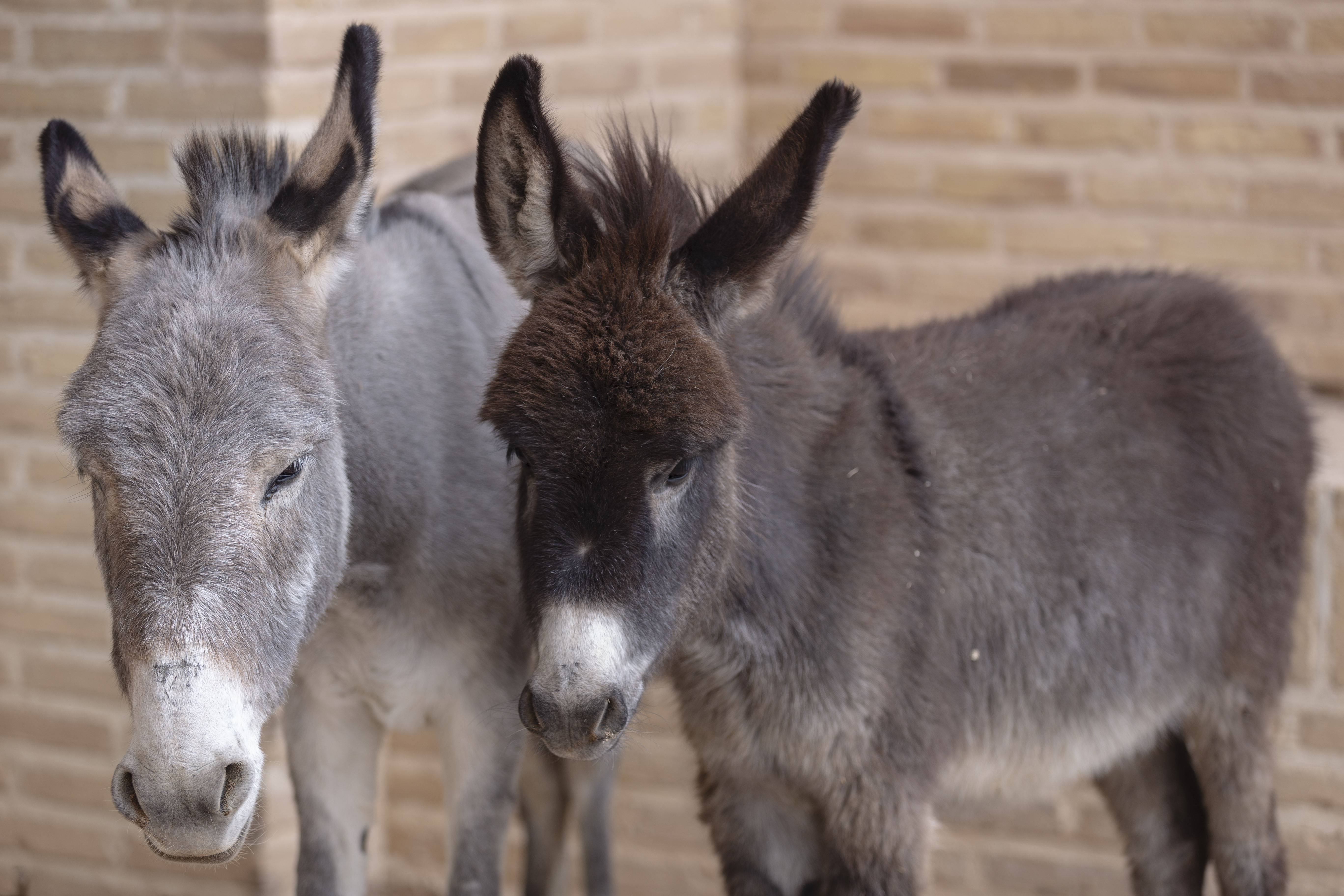 The donkey or ass is a domesticated member of the horse family, Equidae.